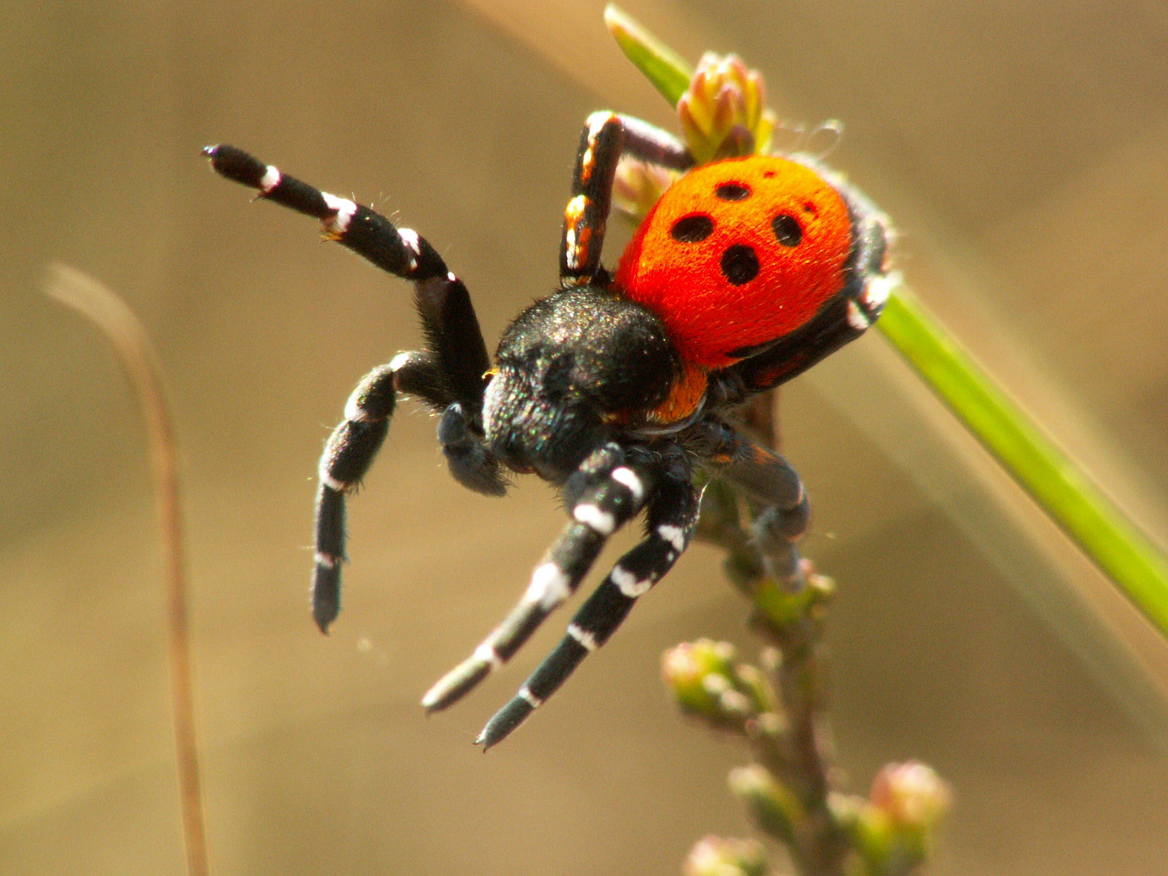 This male spider Eresus sandaliatus is trying to pick up the scent of a female with organs on his legs. Hoge Veluwe, The Netherlands